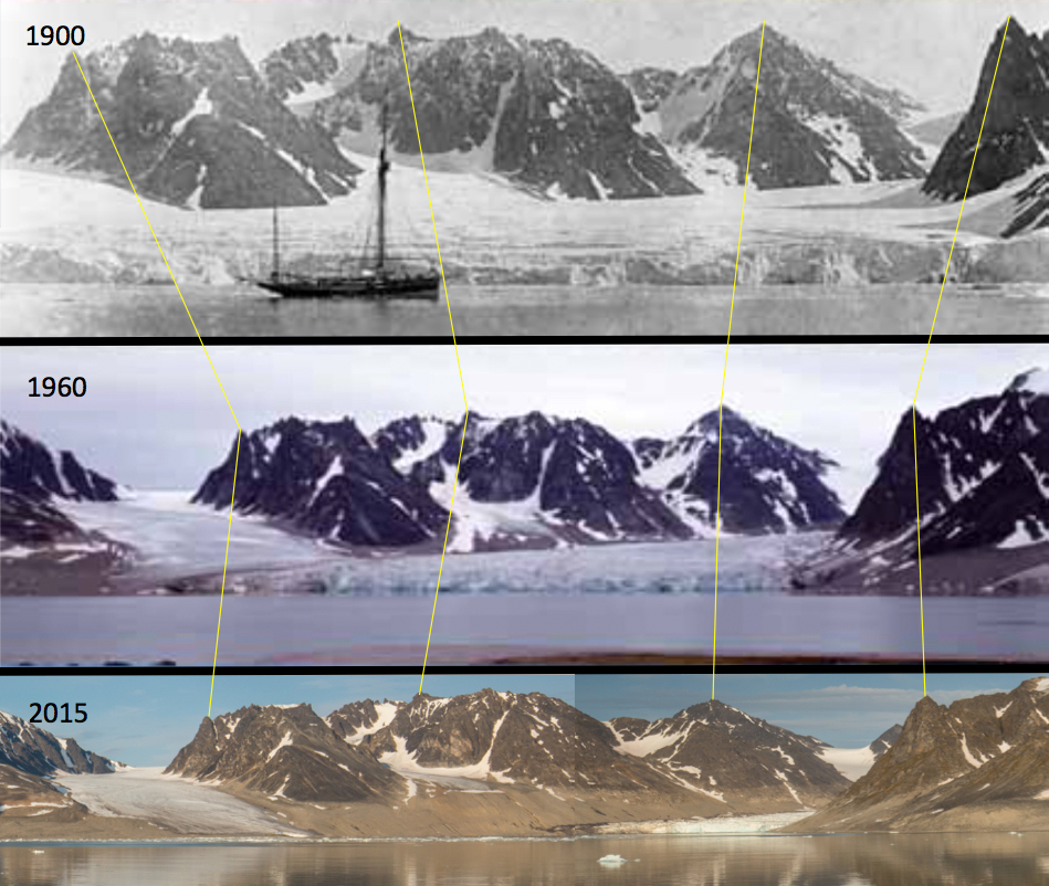 Many glaciers retreat dramatically in the northern hemisphere. Taken the Waggonwaybreen at Magdalenfjord on Svalbard the shrinkage is documented here through photographs of the years 1900 (top), 1960(middle), and 2015 (bottom).